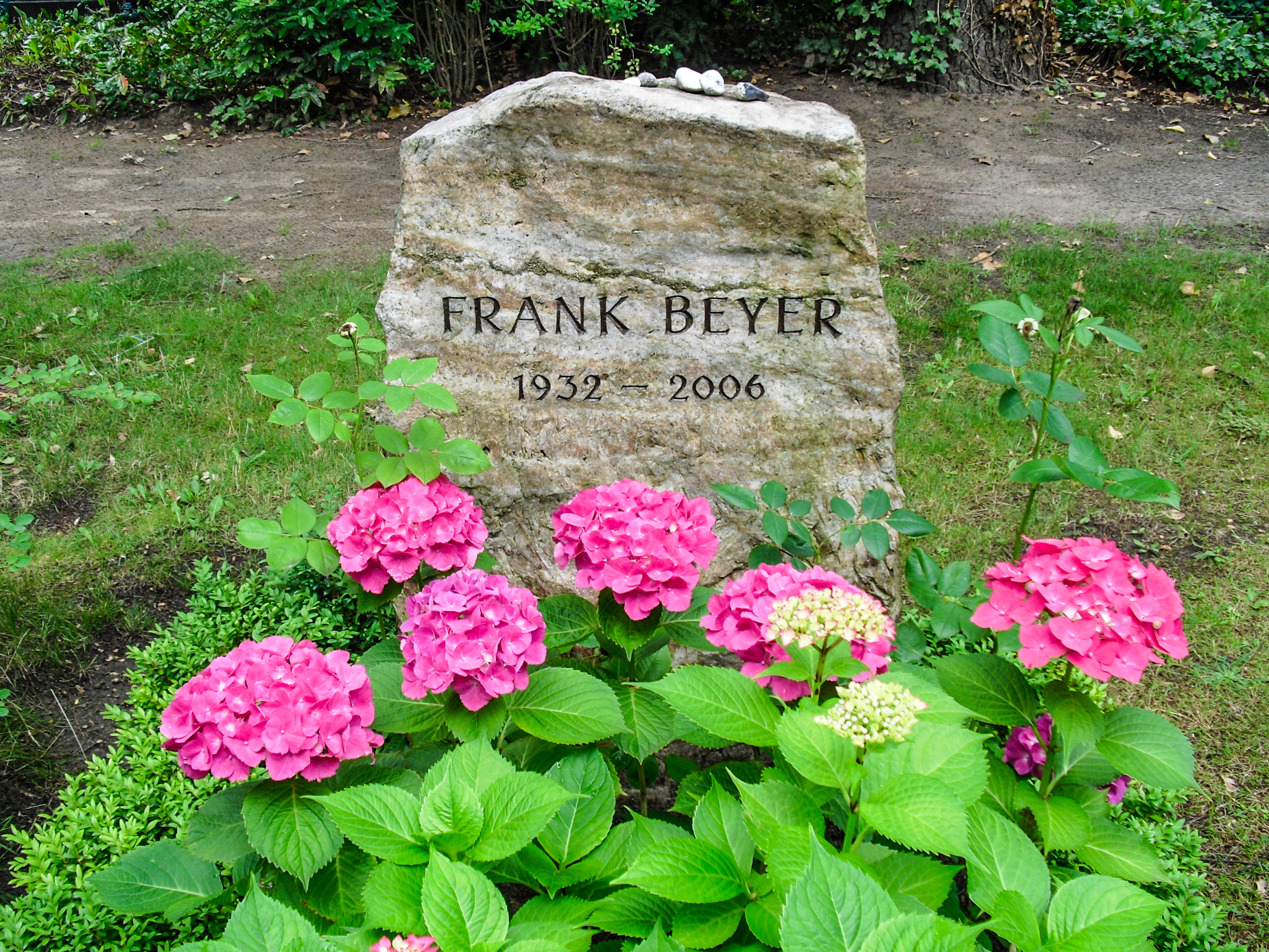 Grave of German film director Frank Beyer in Friedhof der Dorotheenstädtischen und Friedrichswerderschen Gemeinden in Berlin-Mitte